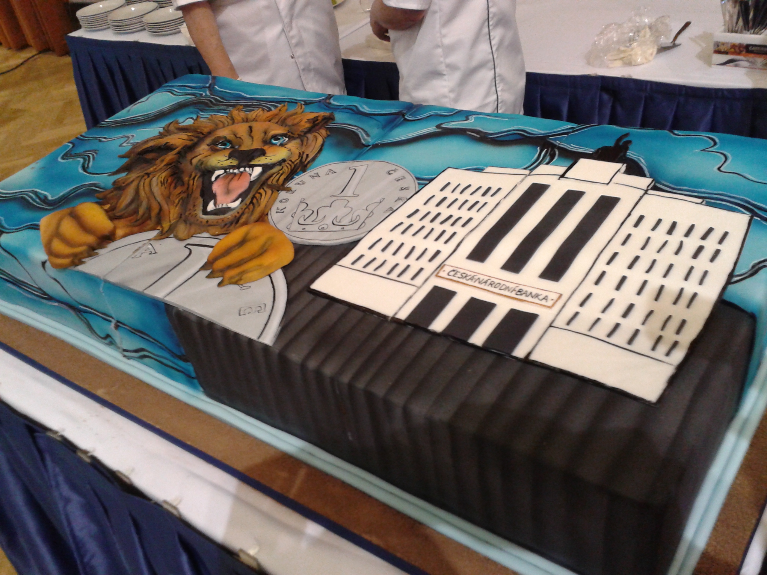 Cake decorated by symbols of CNB on the internal gathering (Monday, June 20, 2016) of employees (in the building CNB) in connection with the ending mandate of Governor Ing. Miroslav Singer, Ph.D.